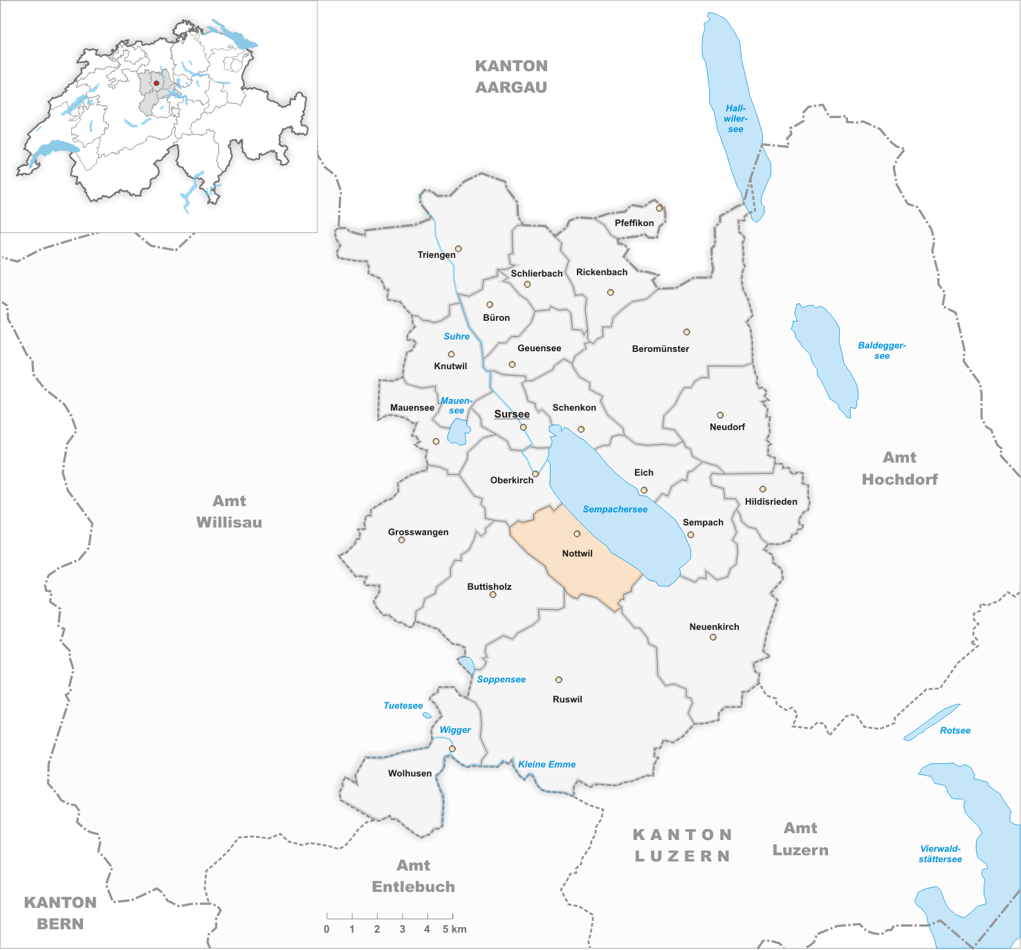 Municipality Nottwil